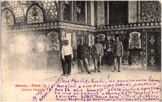 Serdar's Palace in Erivan, (Erivan Governorate on Russian empire's postcard